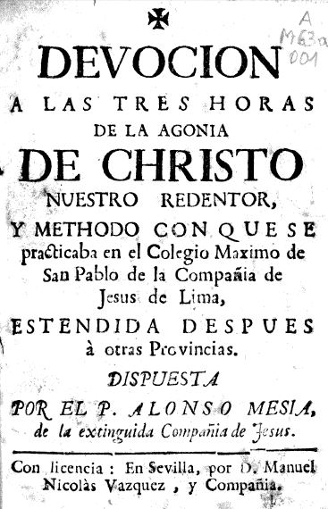 Title-page of Devotion a las tres horas by Alonso Messia SJ, facsimile.